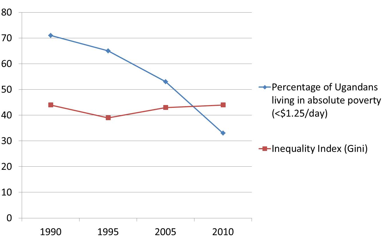 It's a graph showing the trends in reduction of extreme poverty and Income inequality in Uganda